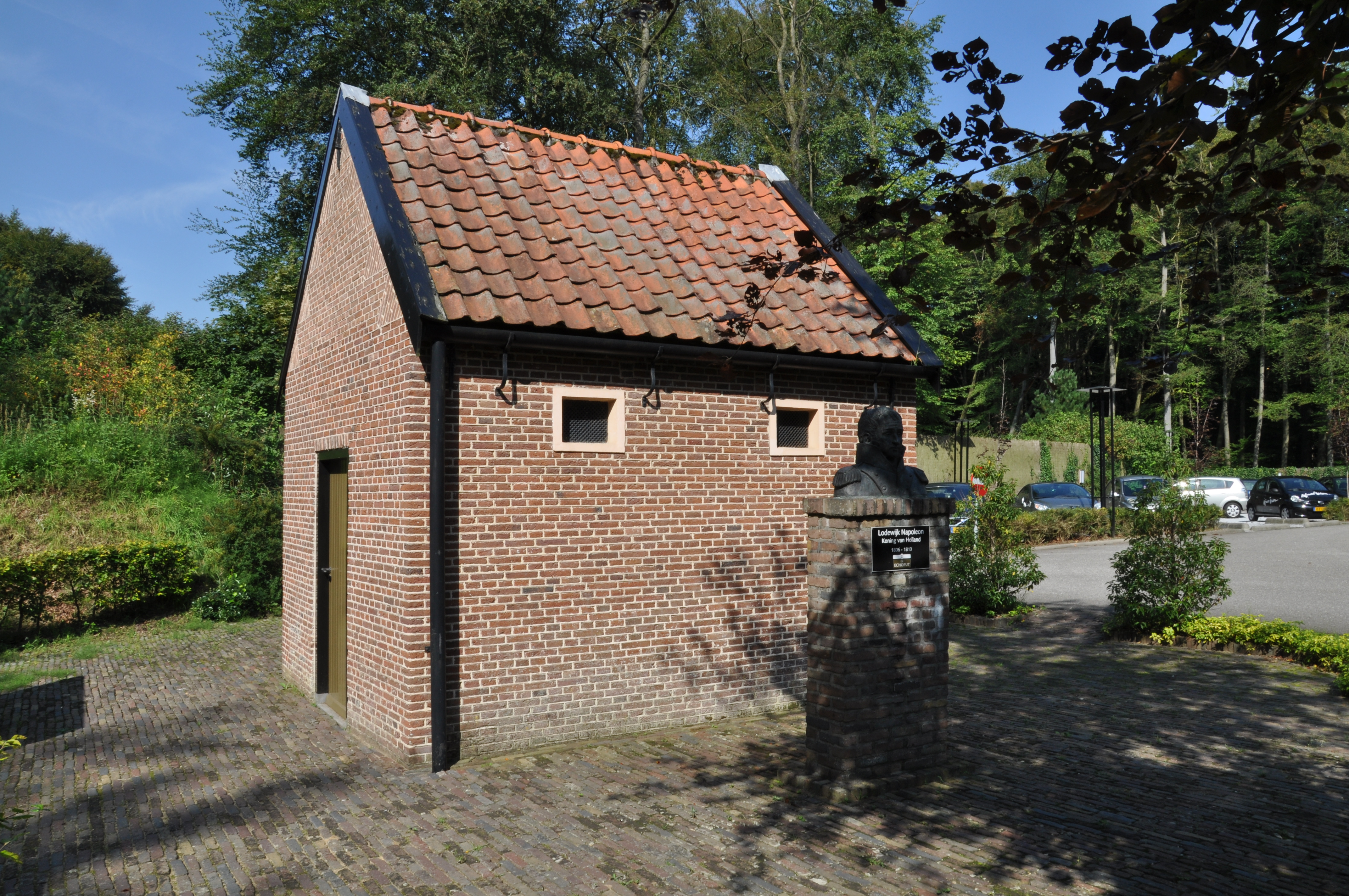 Shelter housing water pit in Hoog Soeren near Apeldoorn, NL, from 1806-1810